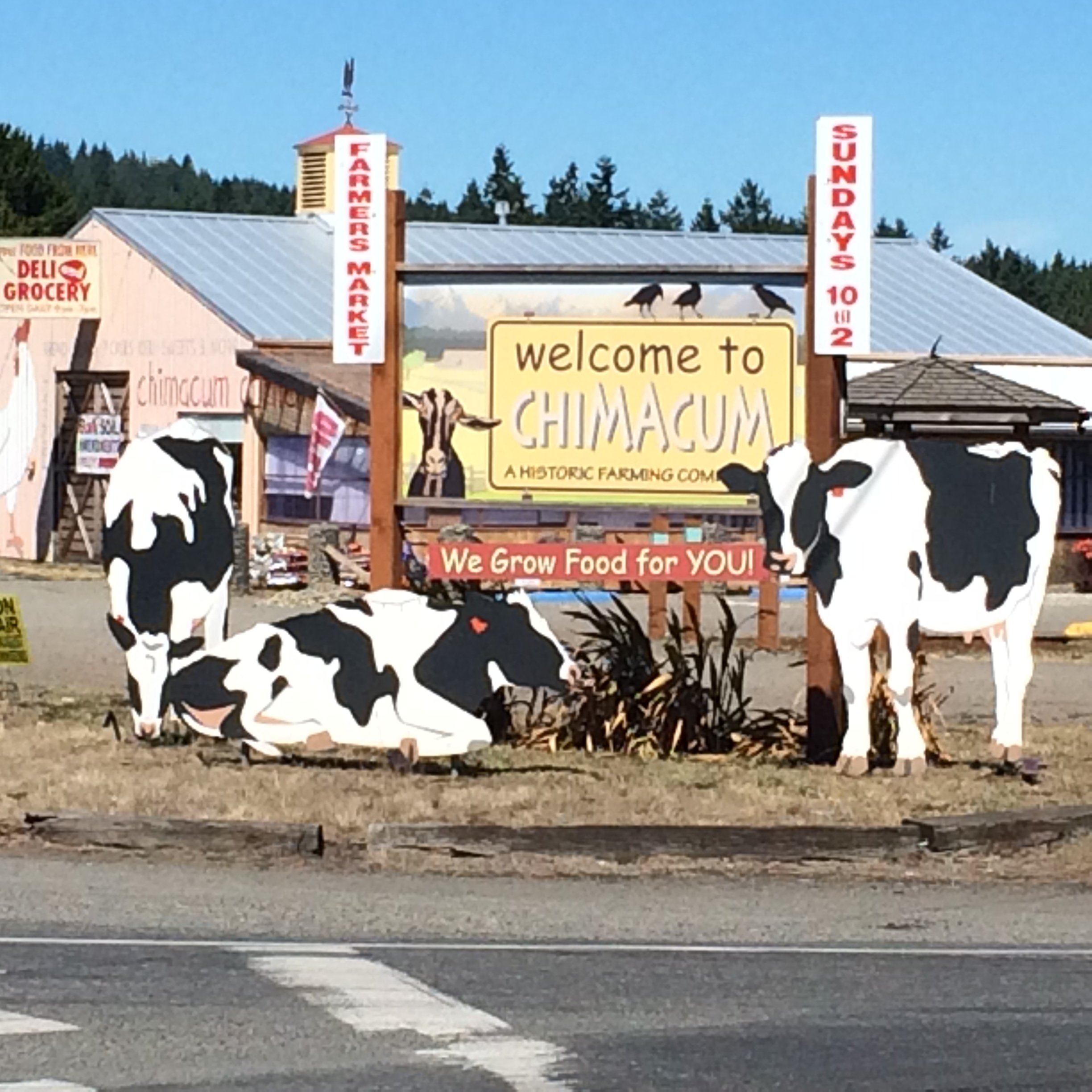 Chimacum Corner Farm Stand